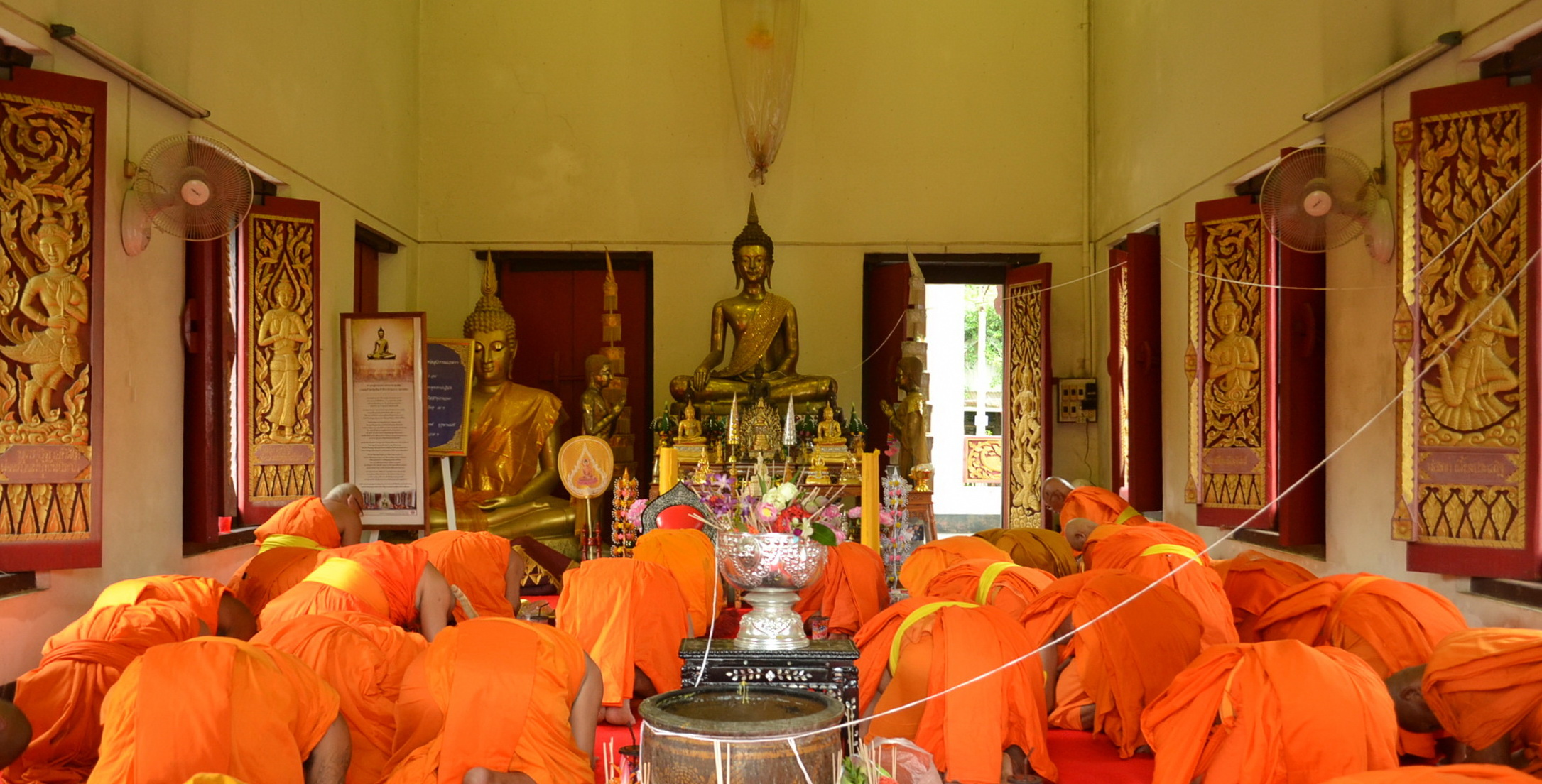 Buddhist monk in Buddhist church on Uposatha Day Location: Wat Khung Taphao Ban Khung Taphao, Khung Taphao subdistrict, Mueang Uttaradit, Uttaradit Province, Thailand.